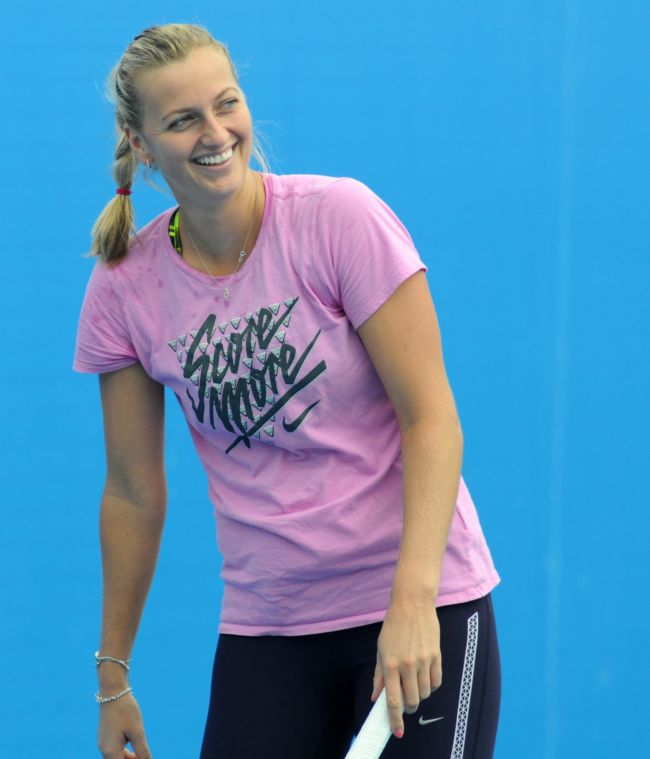 Petra Kvitová at the 2014 China Open